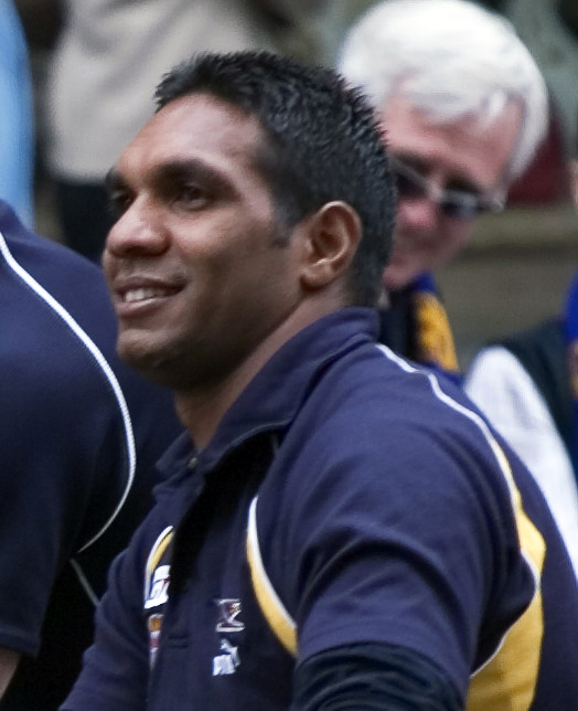 Footballer David Wirrpanda, a West Coast Eagles player, at a parade prior to the w:2005 AFL Grand Final.